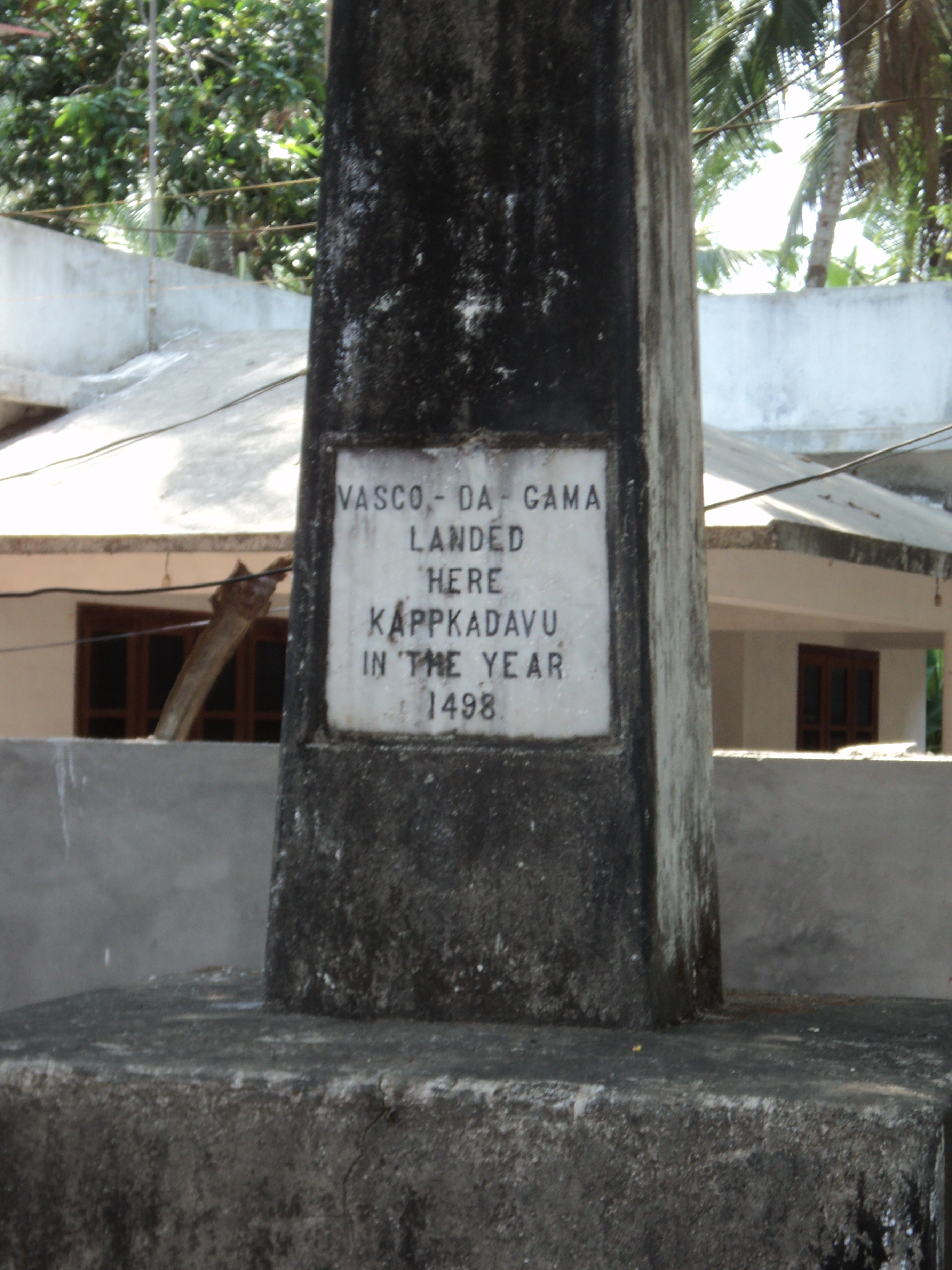 The landmark stupa at Kappad beach, near Calicut (now Kozhikode) in Kerala, India, that commemorates Vasco da Gama's landing in 1498